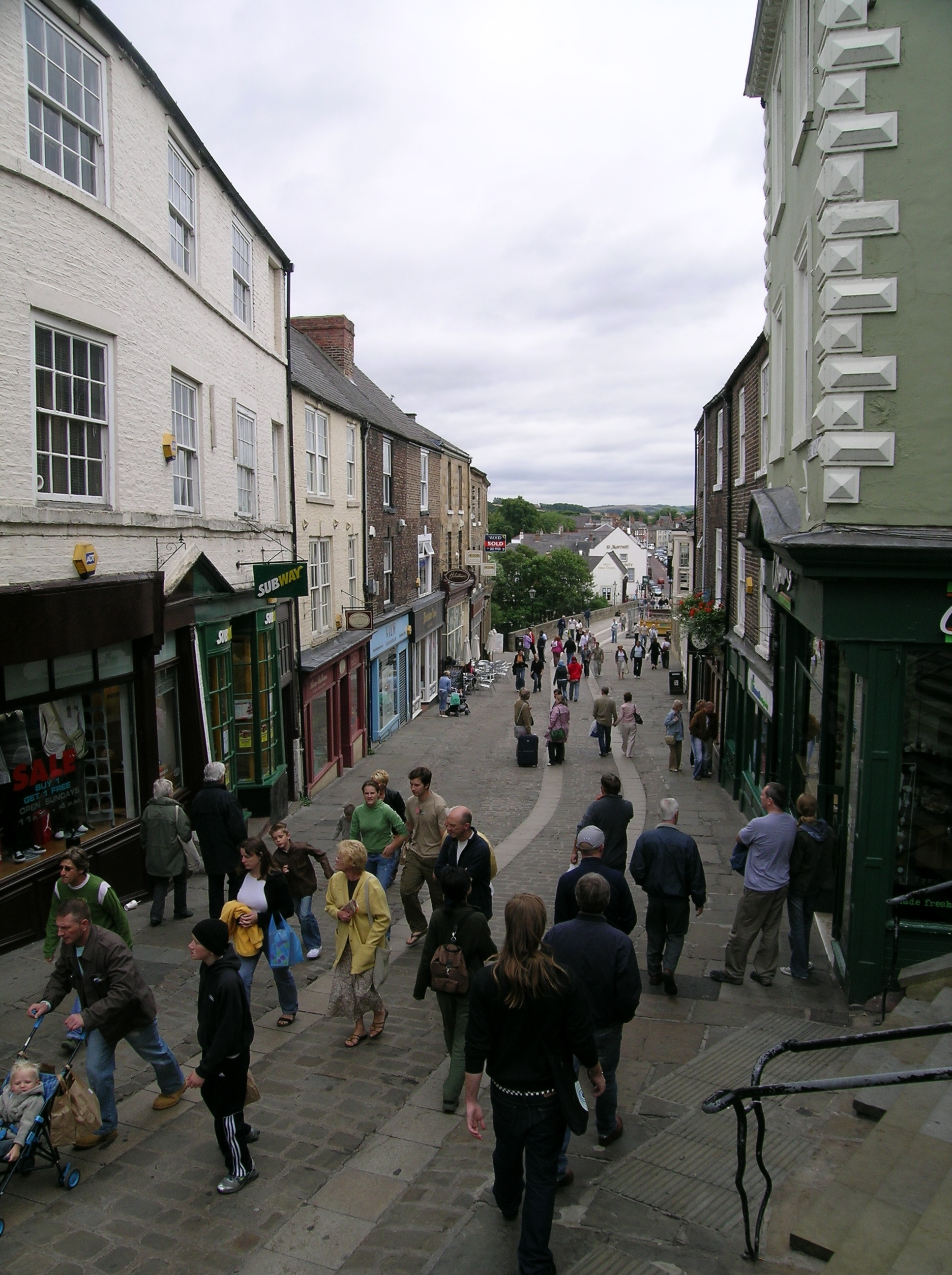 Old Elvet. 12 August 2006 by Uli Harder from